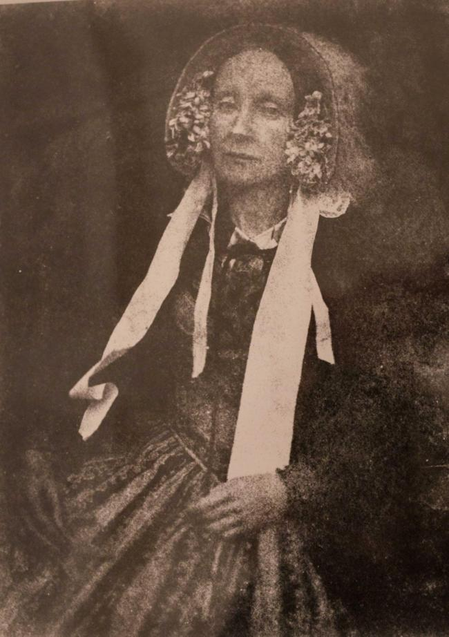 possibly Jesse Mann (20 January 1805 – 21 April 1867) was the studio assistant of the Scottish pioneering photographers David Octavius Hill and Robert Adamson. She is "a strong candidate as the first Scottish woman photographer" - guess date of photos as 1844